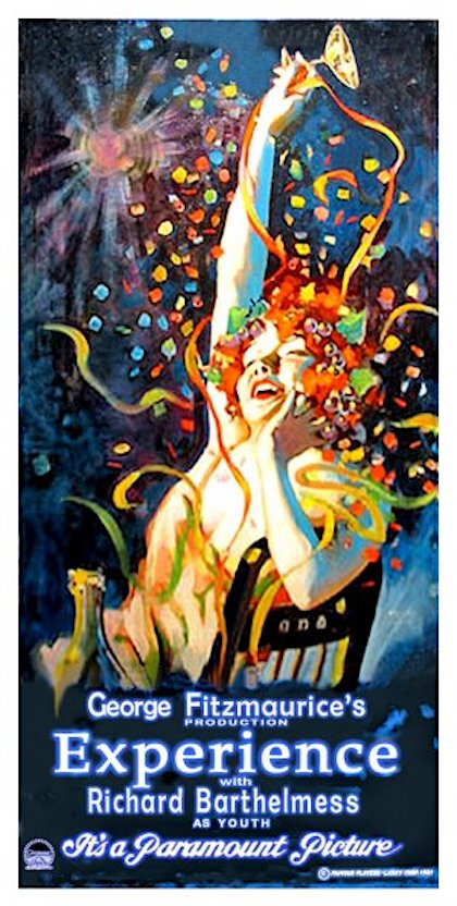 For article Experience This is theatrical poster for the 1921 film Experience, and was first published before 1923.